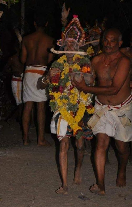 A hysterical Sudalai Madan devotee returns with osseous matter from winnowing at a Shmashana yard